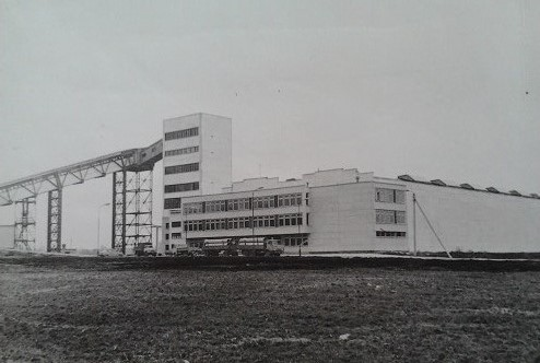 JSC "Utenos gelžbetonis" site